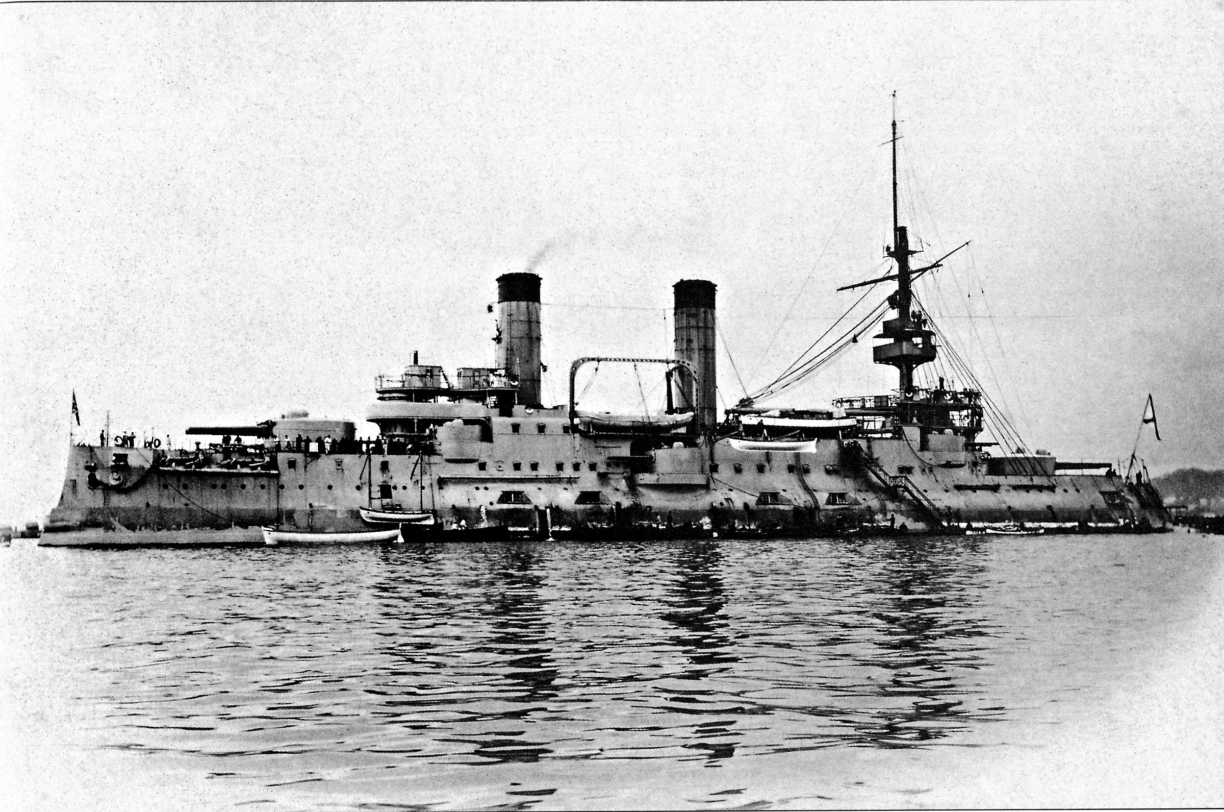 Imperial Russian battleship Tsesarevich in Algeria, 20 January 1906.